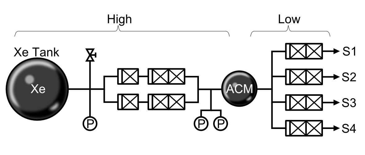 Schematic of ion engine mu10 for Hayabusa 6